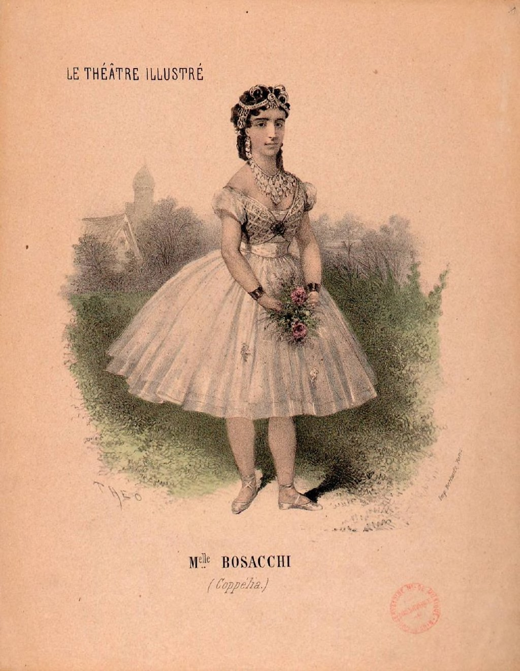 Mlle Bosacchi in Coppélia by Arthur Saint-Léon (1870).